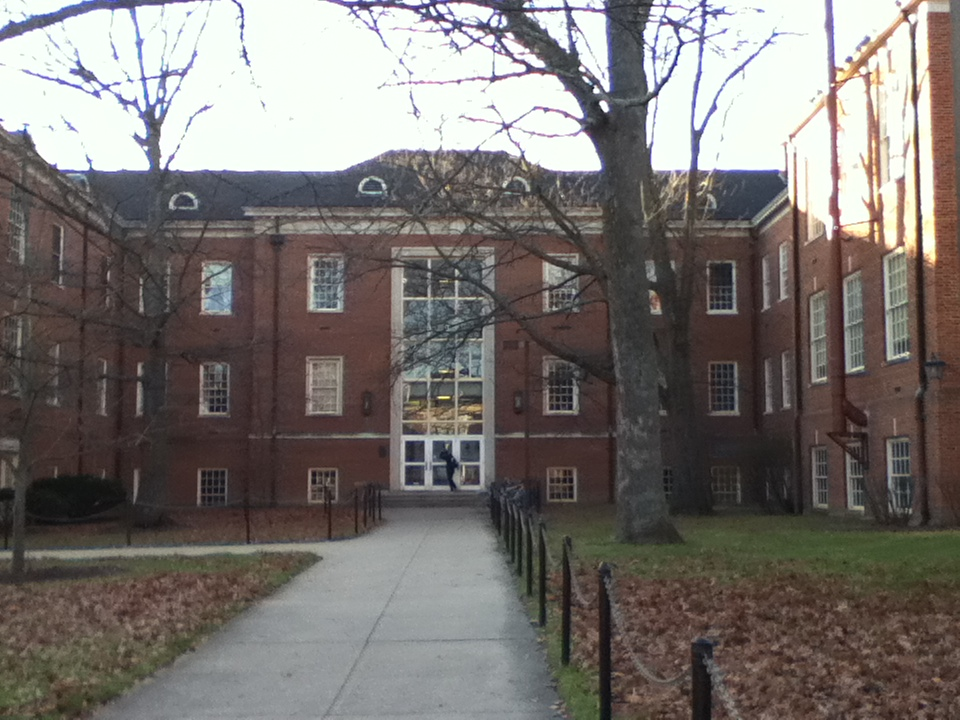 Distant shot of Culler Hall (Miami University) front.